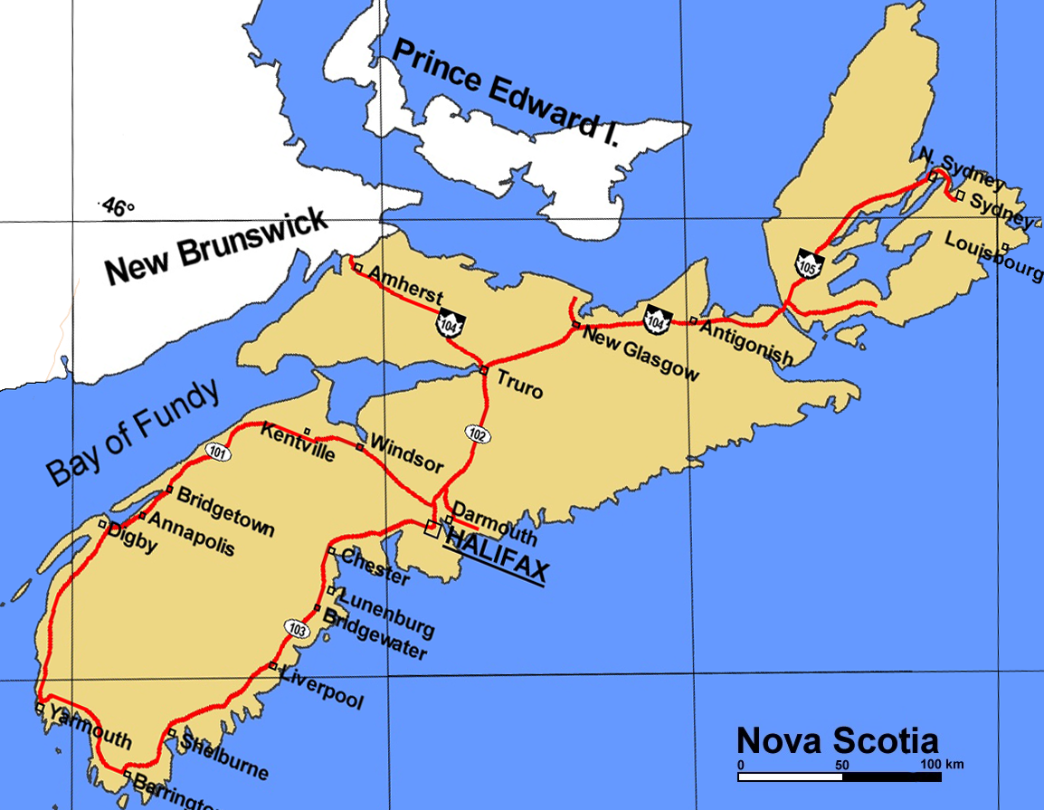 Base map of Nova Scotia, Canada, with major cities and roads